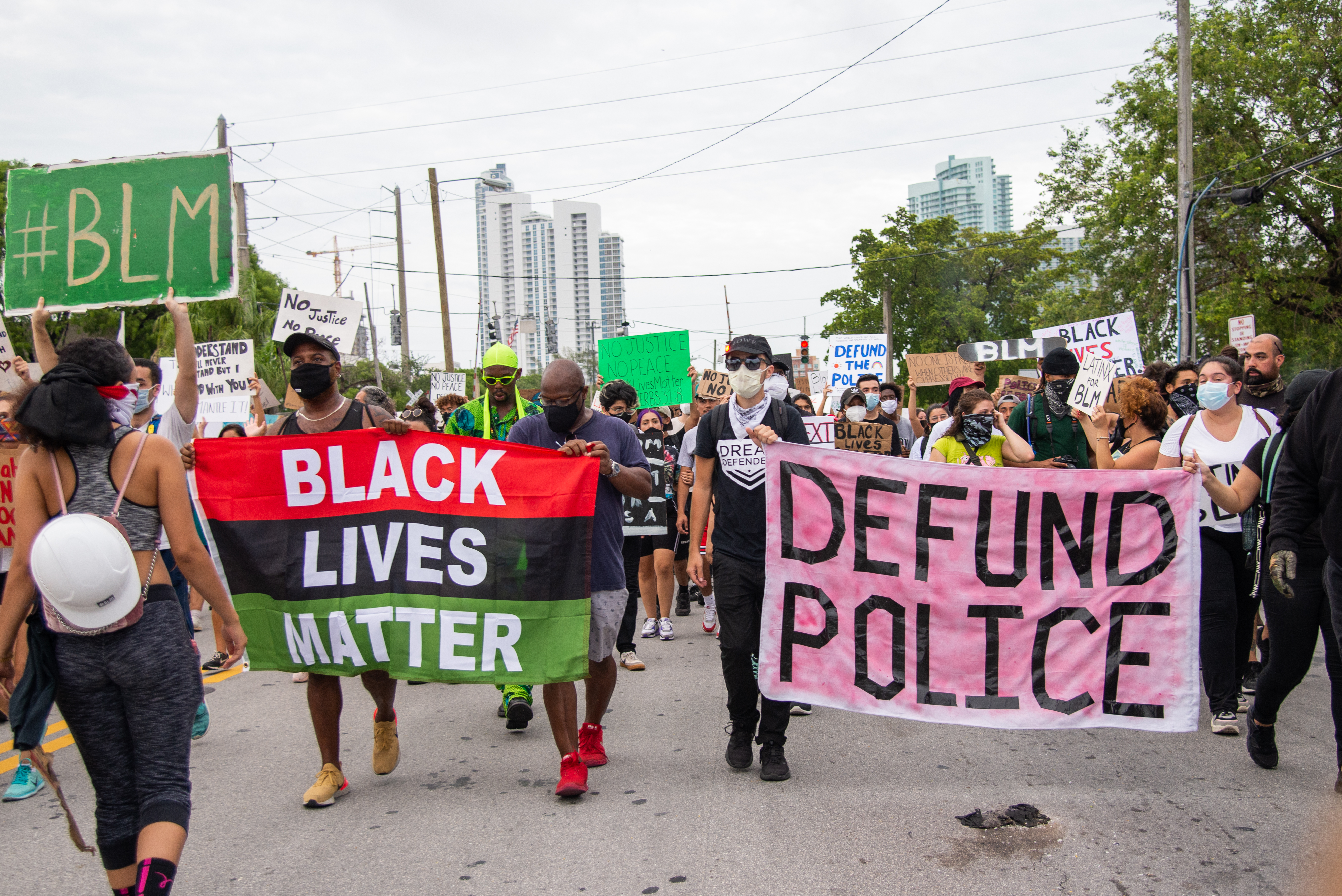 George Floyd protests on their ninth day in Miami